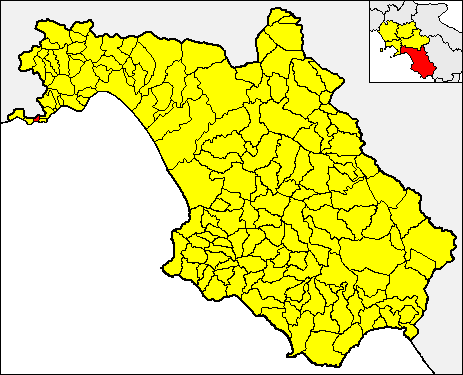 Locator map of the municipality of Furore (red) within the Province of Salerno